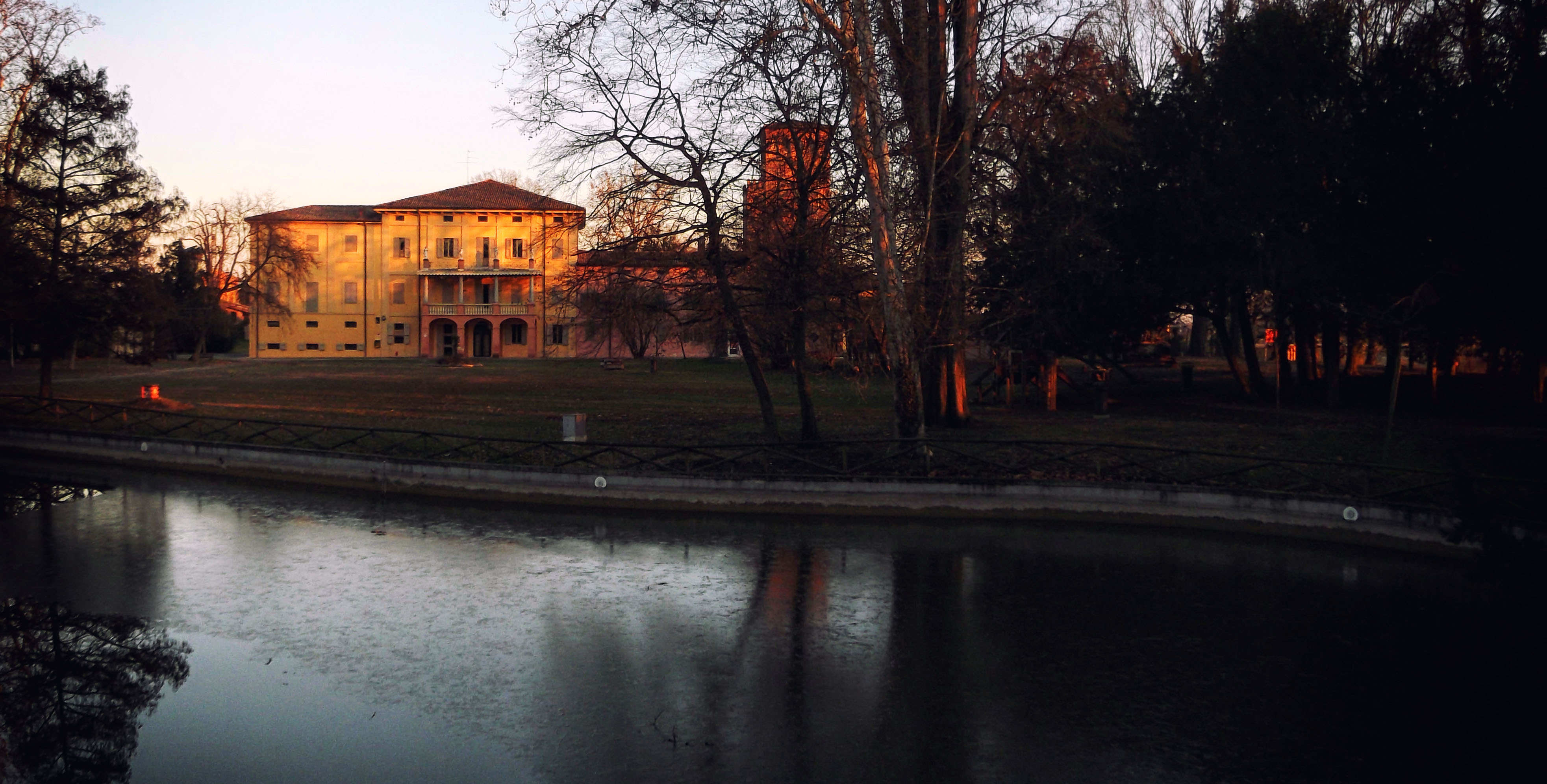 Villa Smeraldi Lake (San Marino di Bentivoglio)